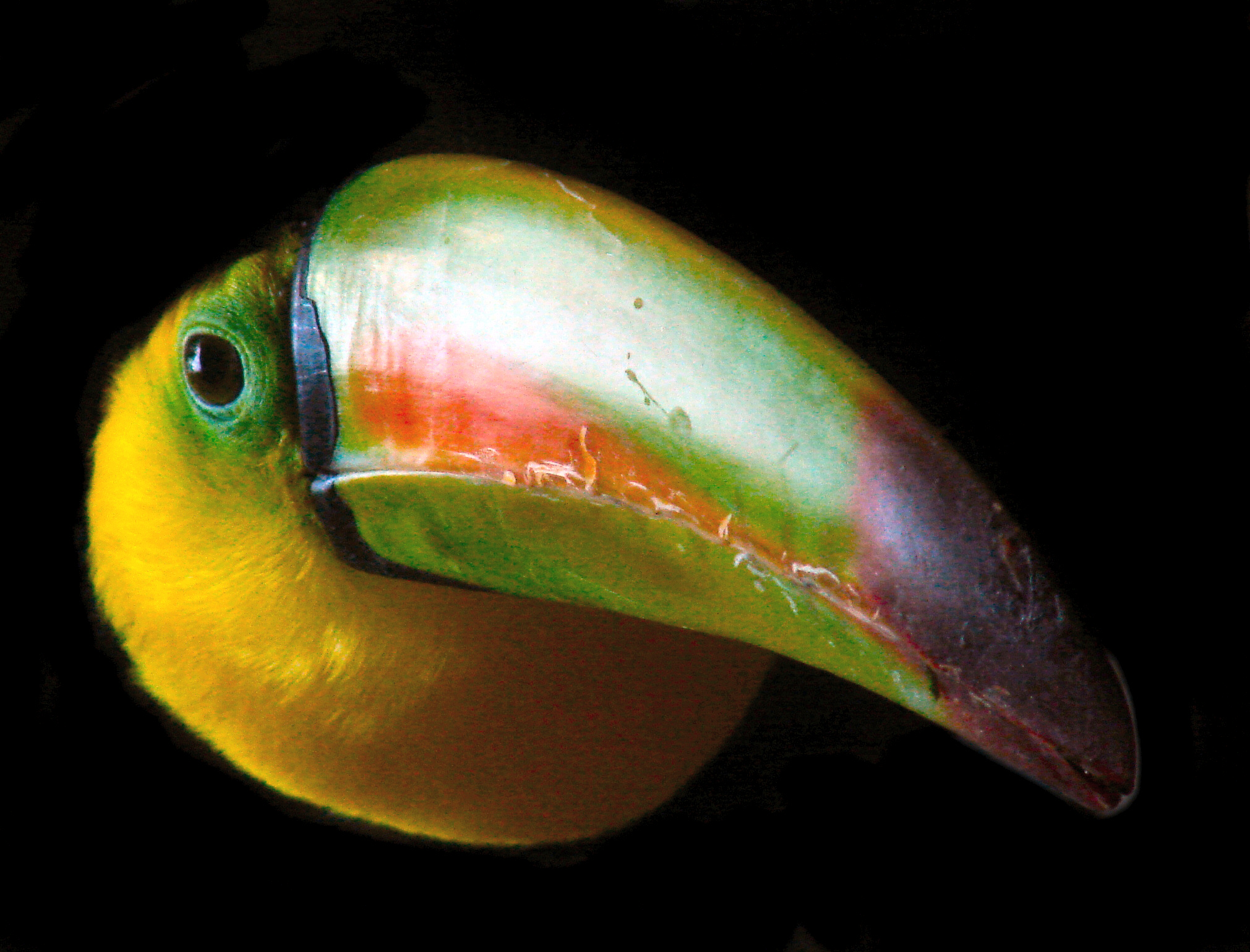 A keel-billed toucan photographed in Mexico.